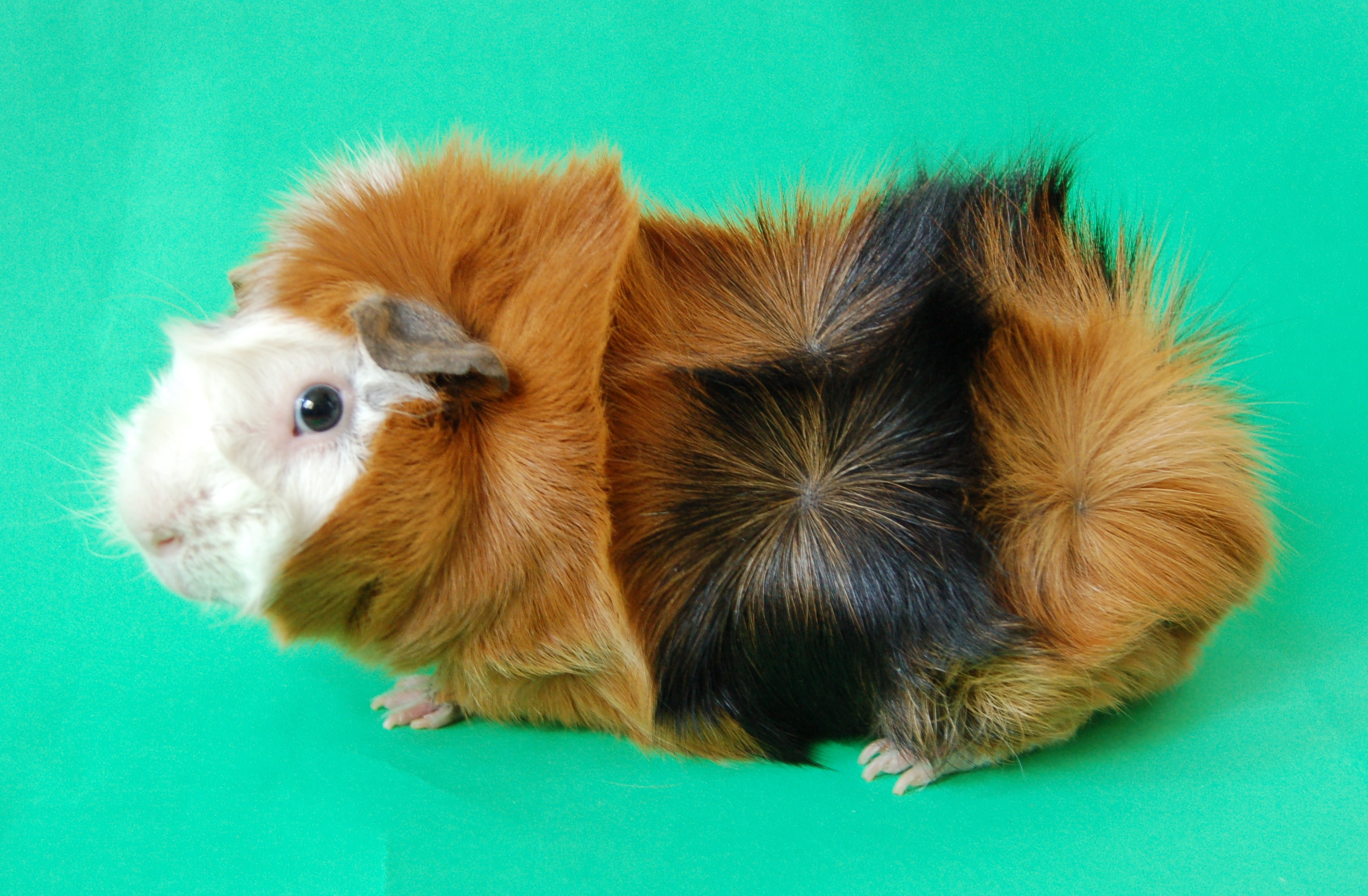 Finnish & Swedish Champion, Aniaras Kelpo Kalle, Abyssinian Cavy